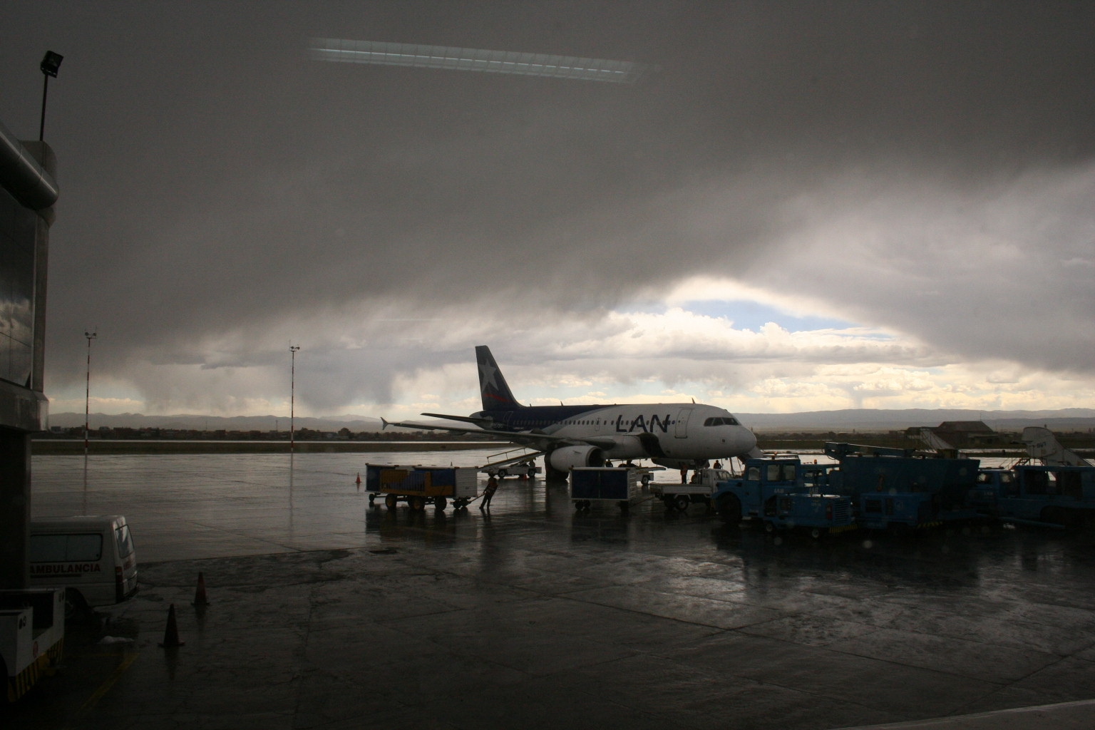 Airport El alto, La Paz Bolivia with a machine of LAN Peru.